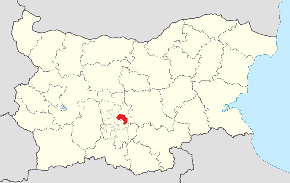 Location map of Rakovski Municipality within Bulgaria and Plovdiv province